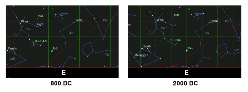 rising of the Pleiades as seen from Delhi, 800 BC and 2000 BC Generated with xephem, a program published under the GPL. The green grid is in 10 degree steps. The Pleiades (M45) are shown 10 degrees above the true horizon in both instances (the approximate altitude at which they would become visible at the time of sunset on autumnal equinox). They appear at an Azimut of some 82 degrees in 800 BC, and of some 90 degrees (due East) in 2000 BC. The Pleiades rose over the true horizon (not directly observable except at sea) due east from ca. 2980 to 2880 BC, and at about 78 degrees (East by north) in 800 BC. These facts play a certain role in archaeoastronomical estimates of the dating of the Shatapatha Brahmana, see Hindu astronomy: the SB states that the Pleiades "do not swerve from the east". If this is taken as a statement accurate to the degree, it refers to a time near 2900 BC. If the statement is taken to be accurate to 1/16 of the compass (the actual accuracy for directions of the compass demonstrable for Brahmana texts), it can apply to any time between 7000 BC and AD 1000. At the generally assumed date of the composition of the Brahmanas (roughly 800 BC), it was accurate to about 1/32 of the compass.